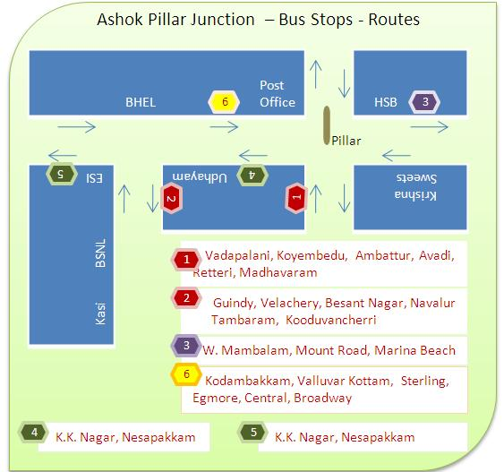 Ashok Nagar Bus Stop Chennai, Ashok Pillar